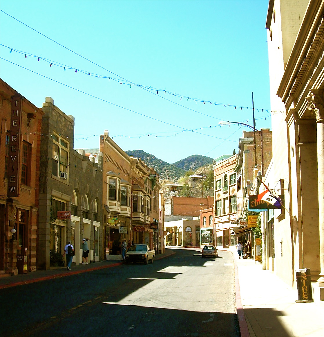 Willjay, taken by me. Bisbee, Arizona, Main Street.